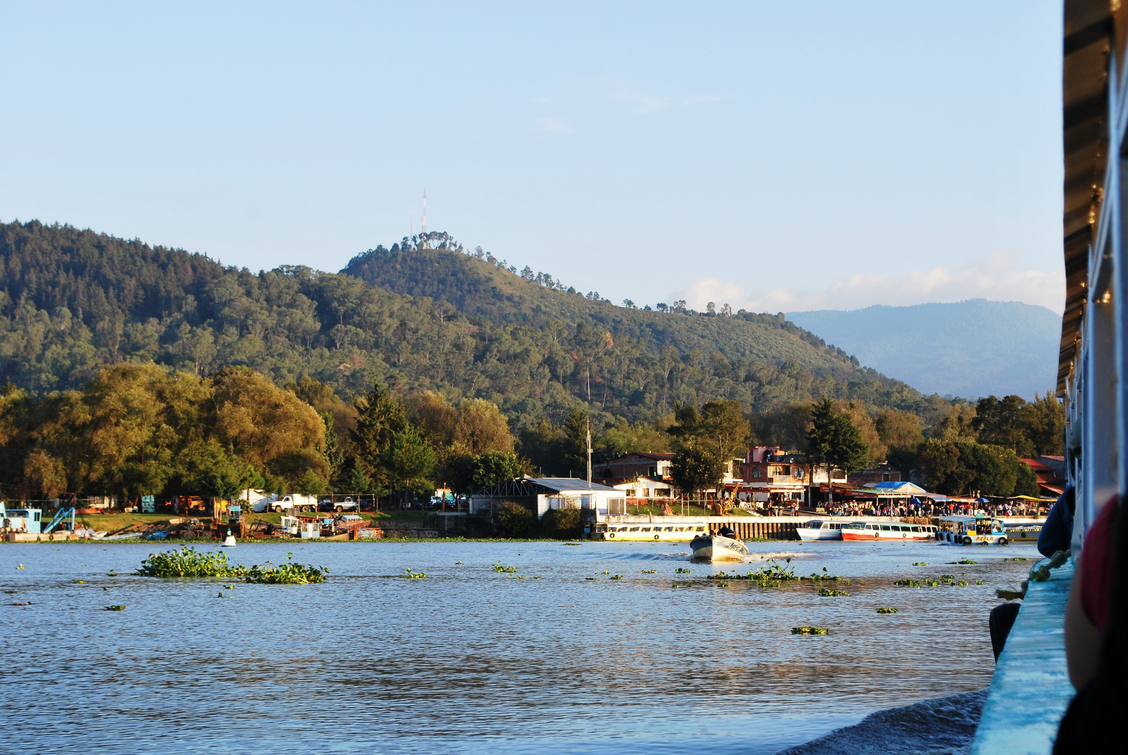 View of the docks of Patzcuaro